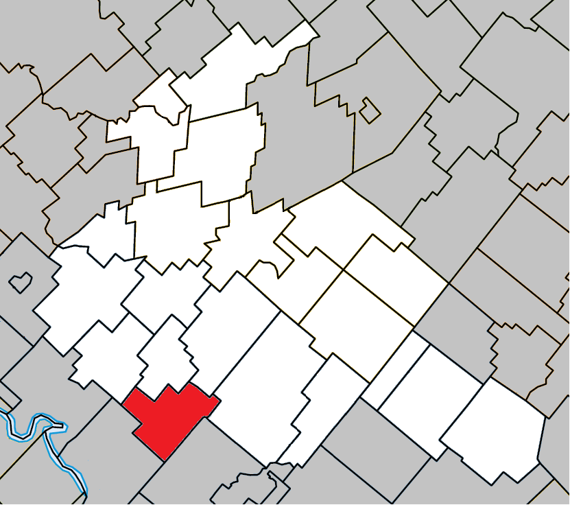 Location of Kingsey Falls, Quebec within Arthabaska Regional County Municipality.